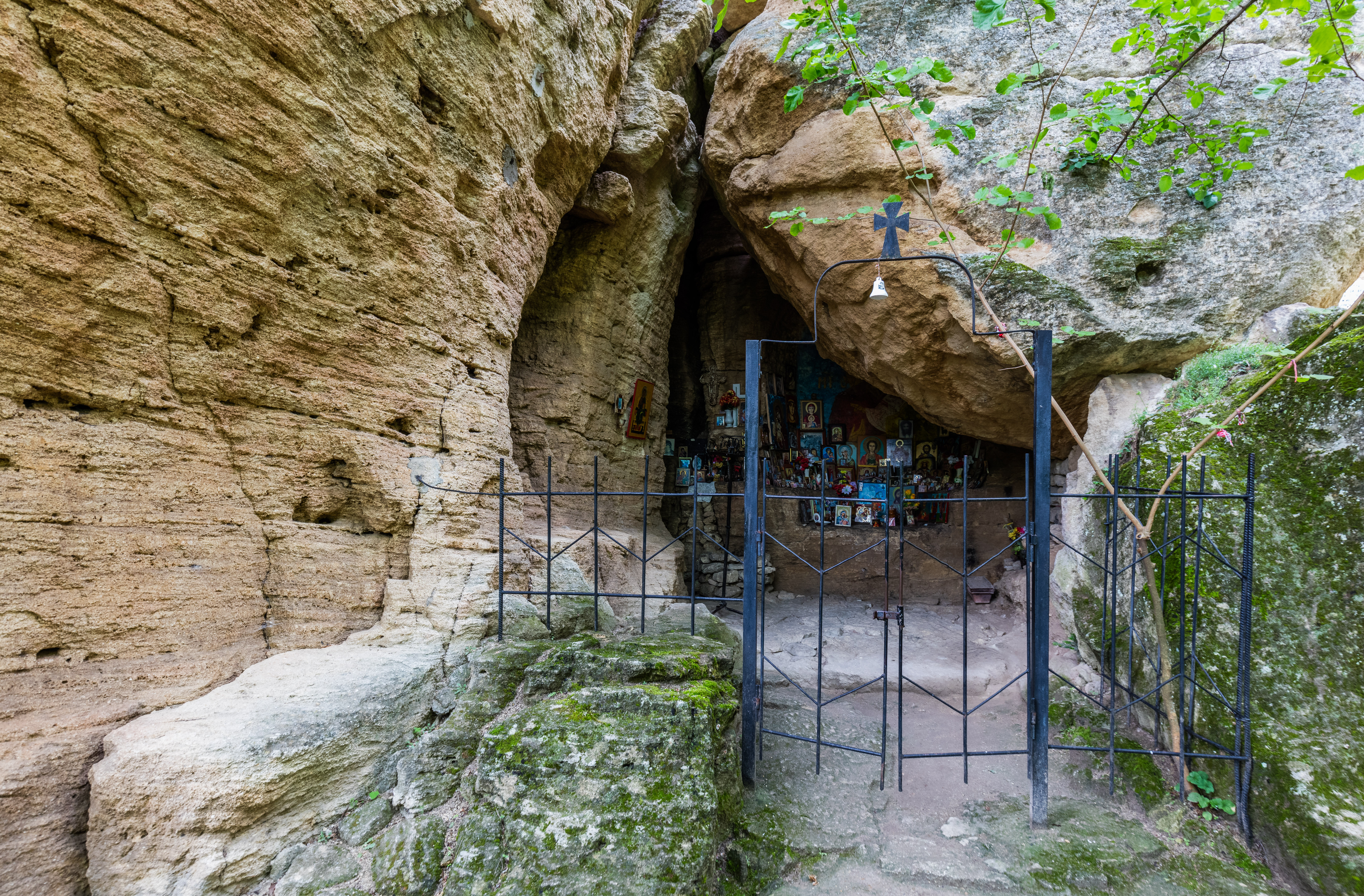 St Panteleymon Rock Chapel, Historical arqueological national preserve of Madara, Bulgaria